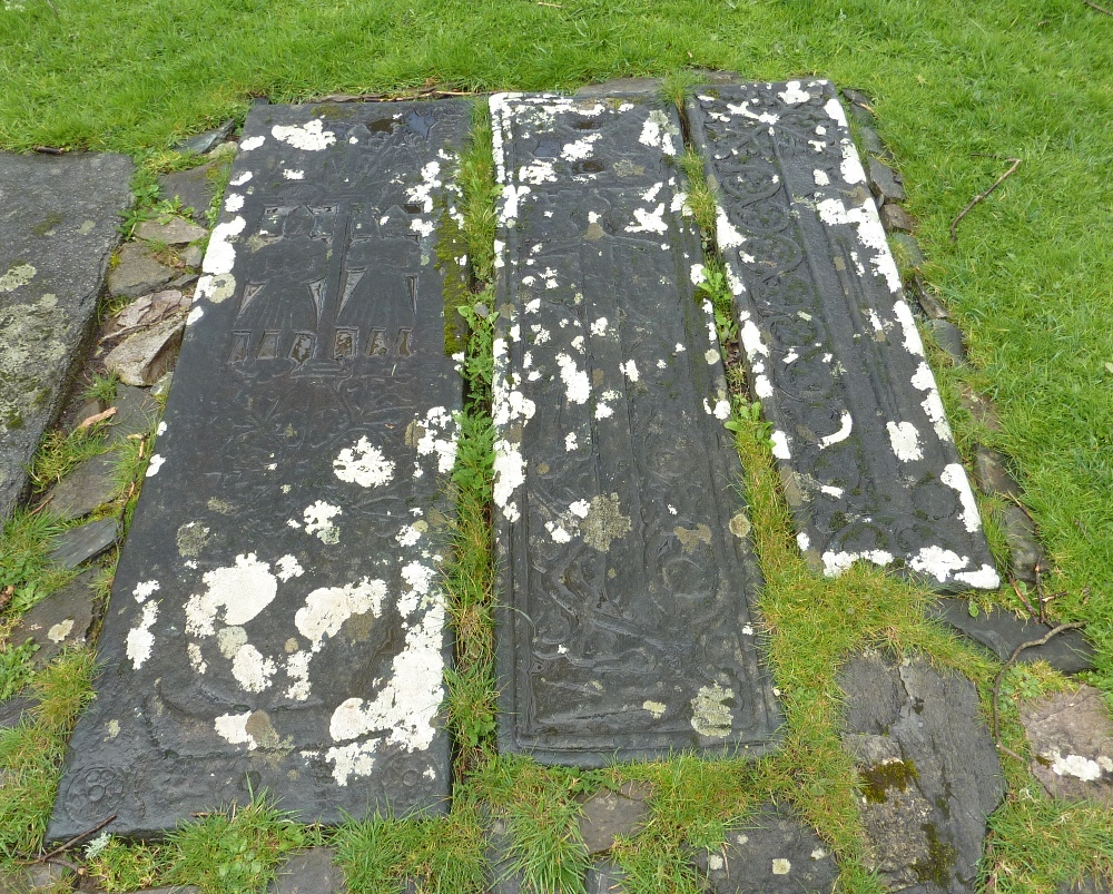 Kildalton Church, Kildalton, Islay, Argyll and Bute, Scotland. Grave slabs, Graham no.101 (Oronsay-school), 100 (Loch Sween-school), and 99 (Iona-school)